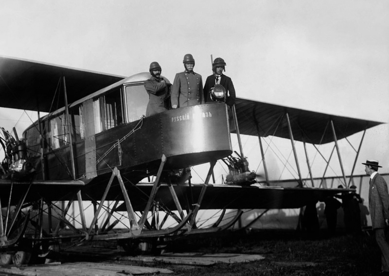 Ukrainian/Russian aviators Igor Sikorsky, Genner, Kaulbars in the airplane "Russian Vityaz"